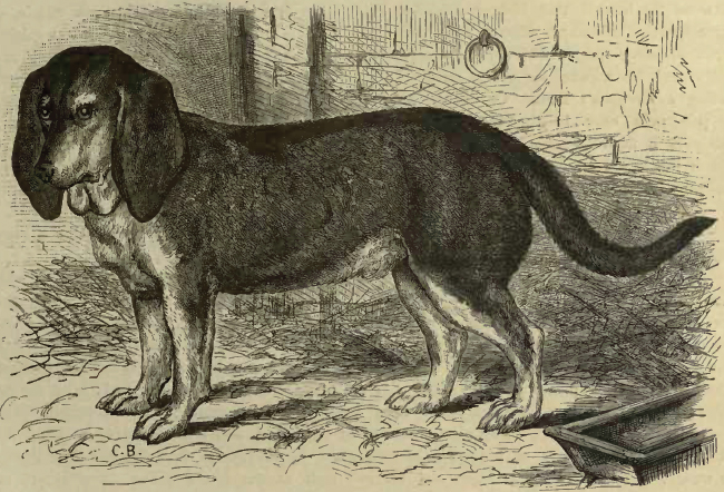 "Jerker" a Swedish Beagle (Drever)